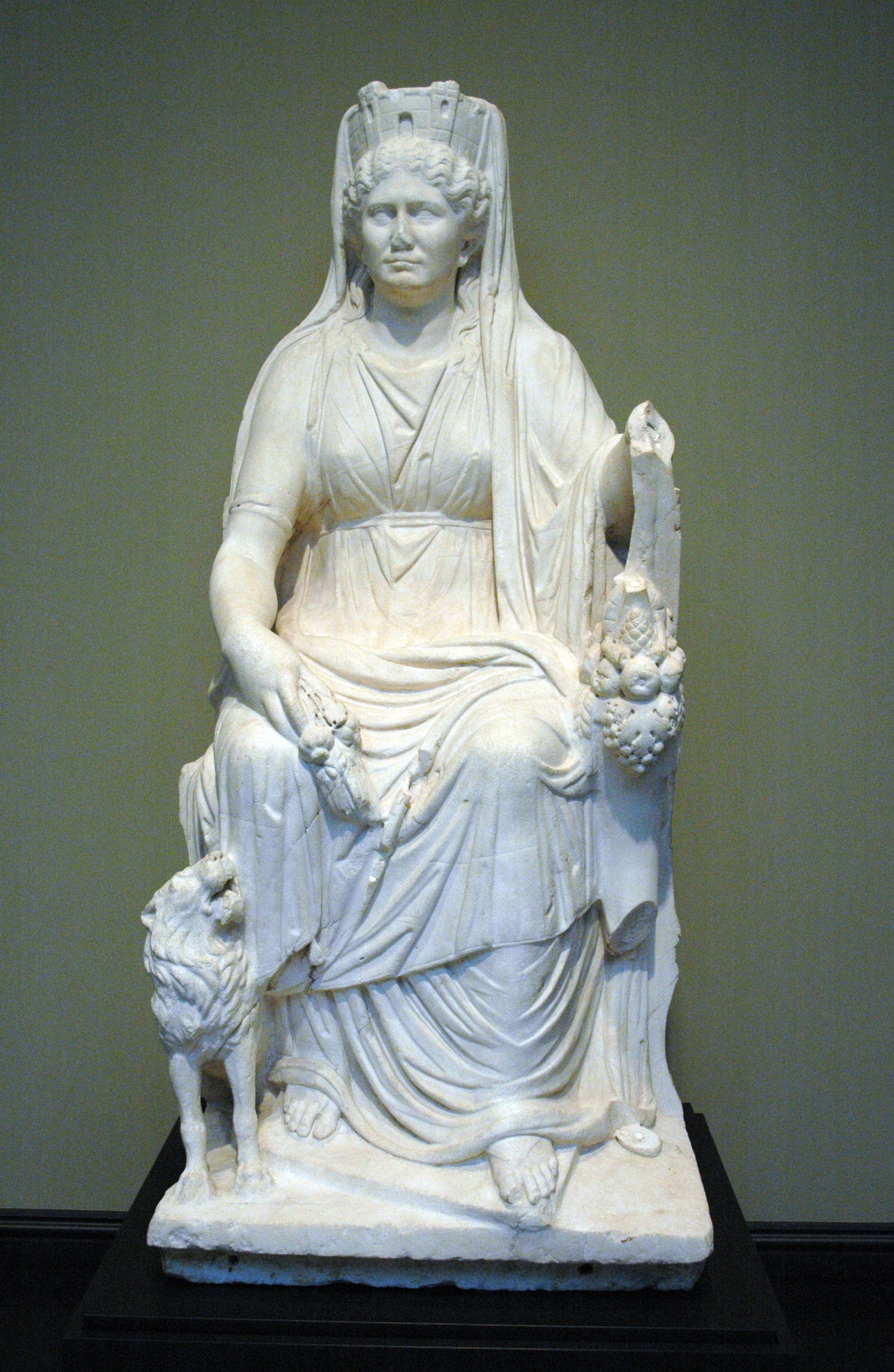 Cybele with her traditional attributes (cornucopia, lion and crown in the shape of city walls). The face is an individualized portrait of Roman woman, probably of a high status. Roman marble, ca. 50 AD.